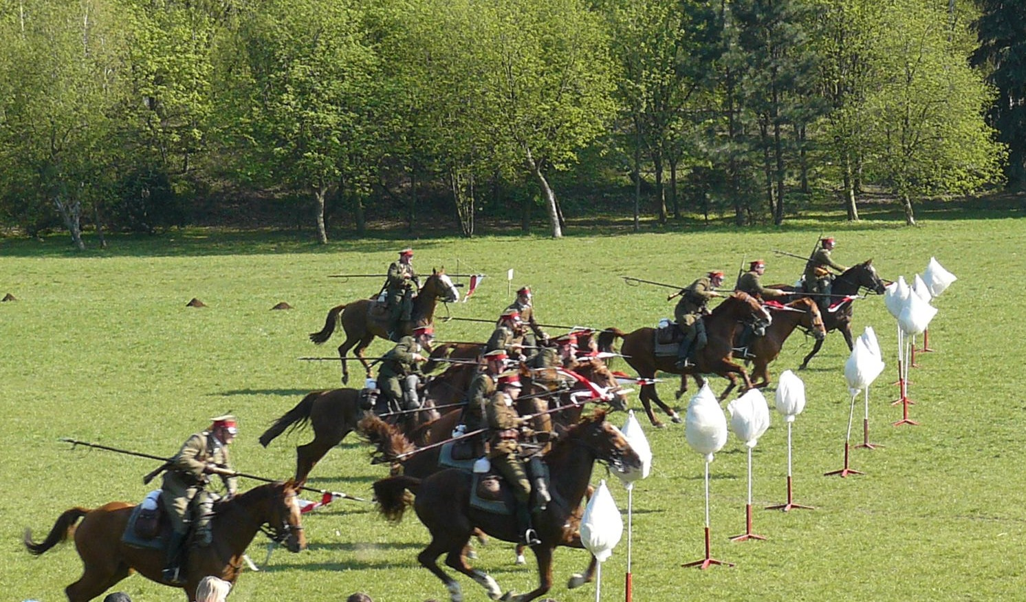 Uhlan Day's in Poznan, 25.4.2010.